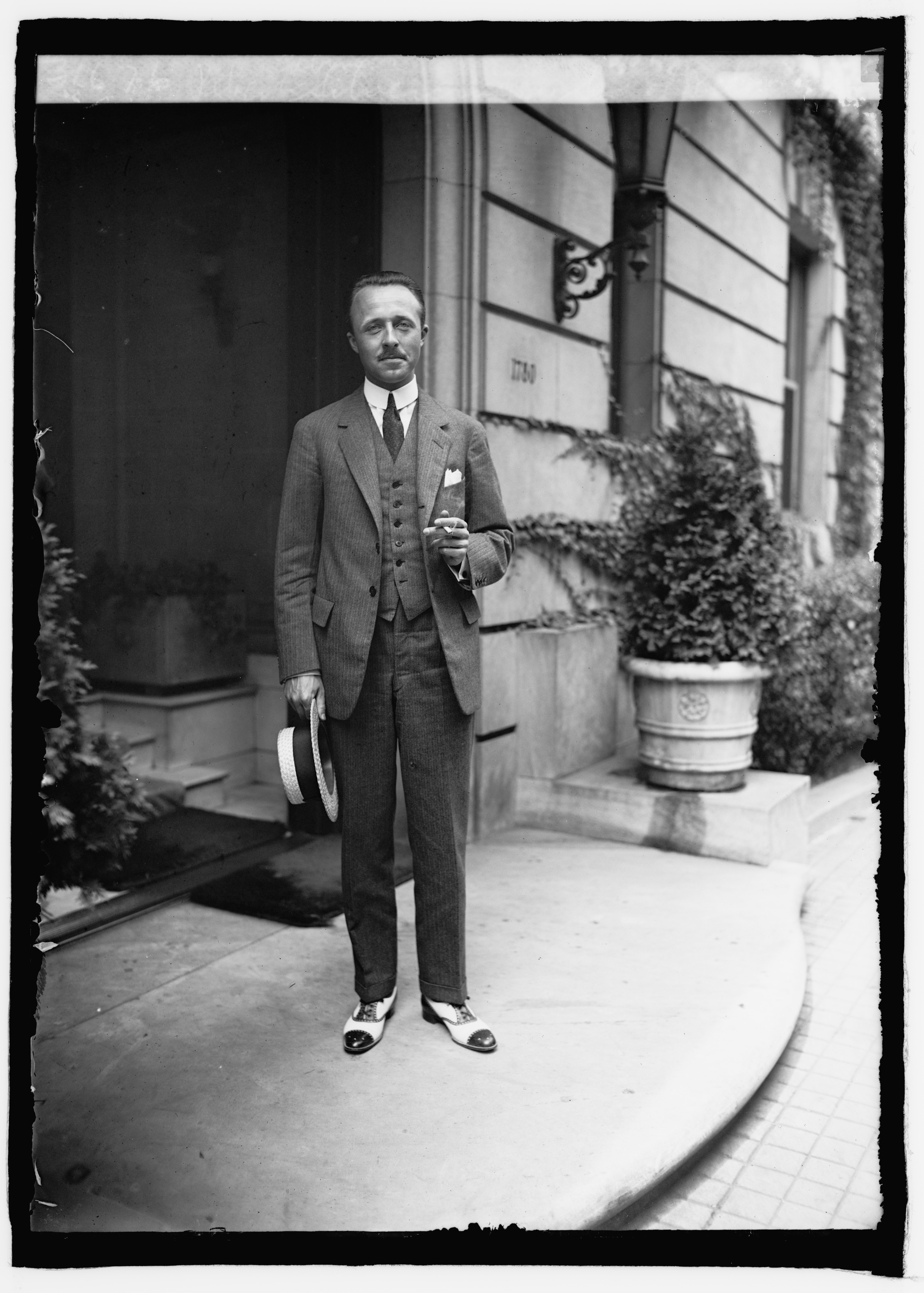 Title: Robert Silvercruys, Sec. of Belgian Cabinet, 8/1/24 Abstract/medium: 1 negative : glass ; 5 x 7 in. or smaller